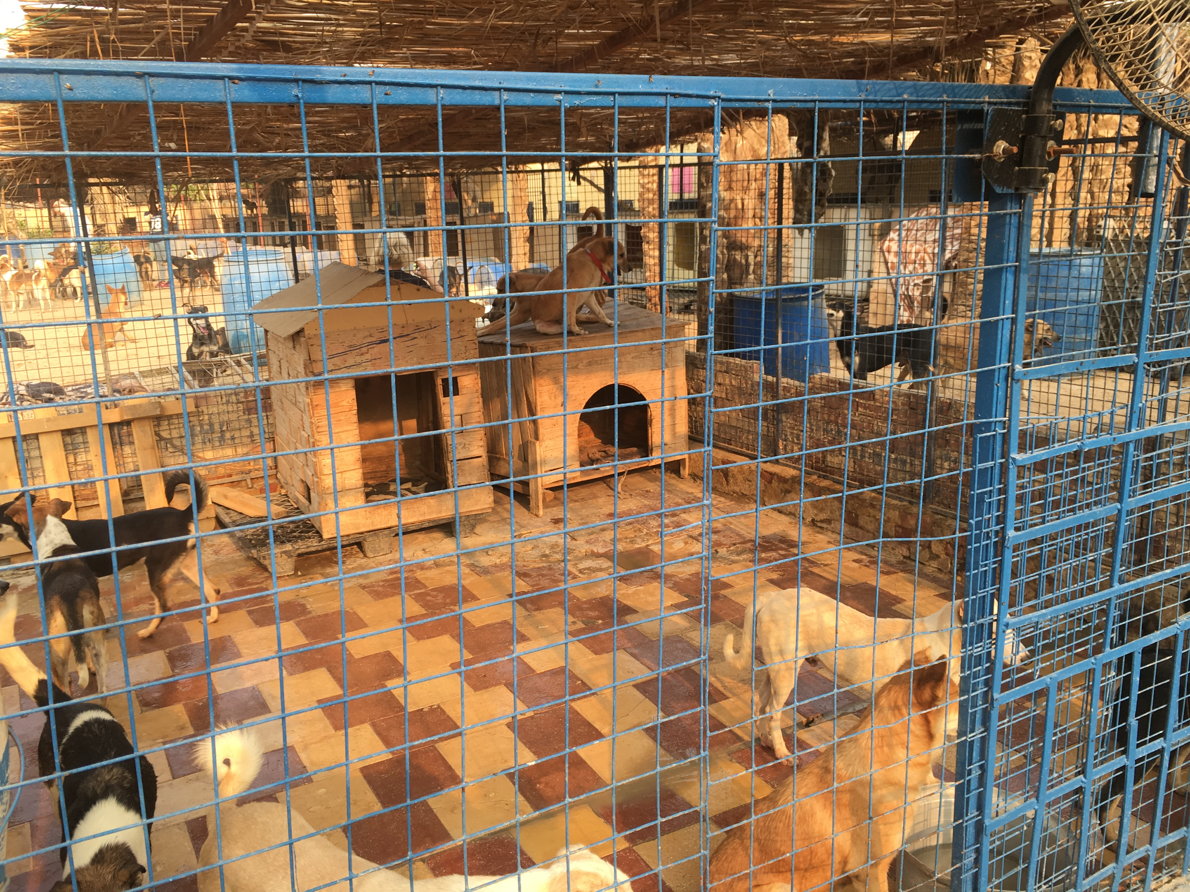 Dogs At ESMA , photo by Hatem Moushir